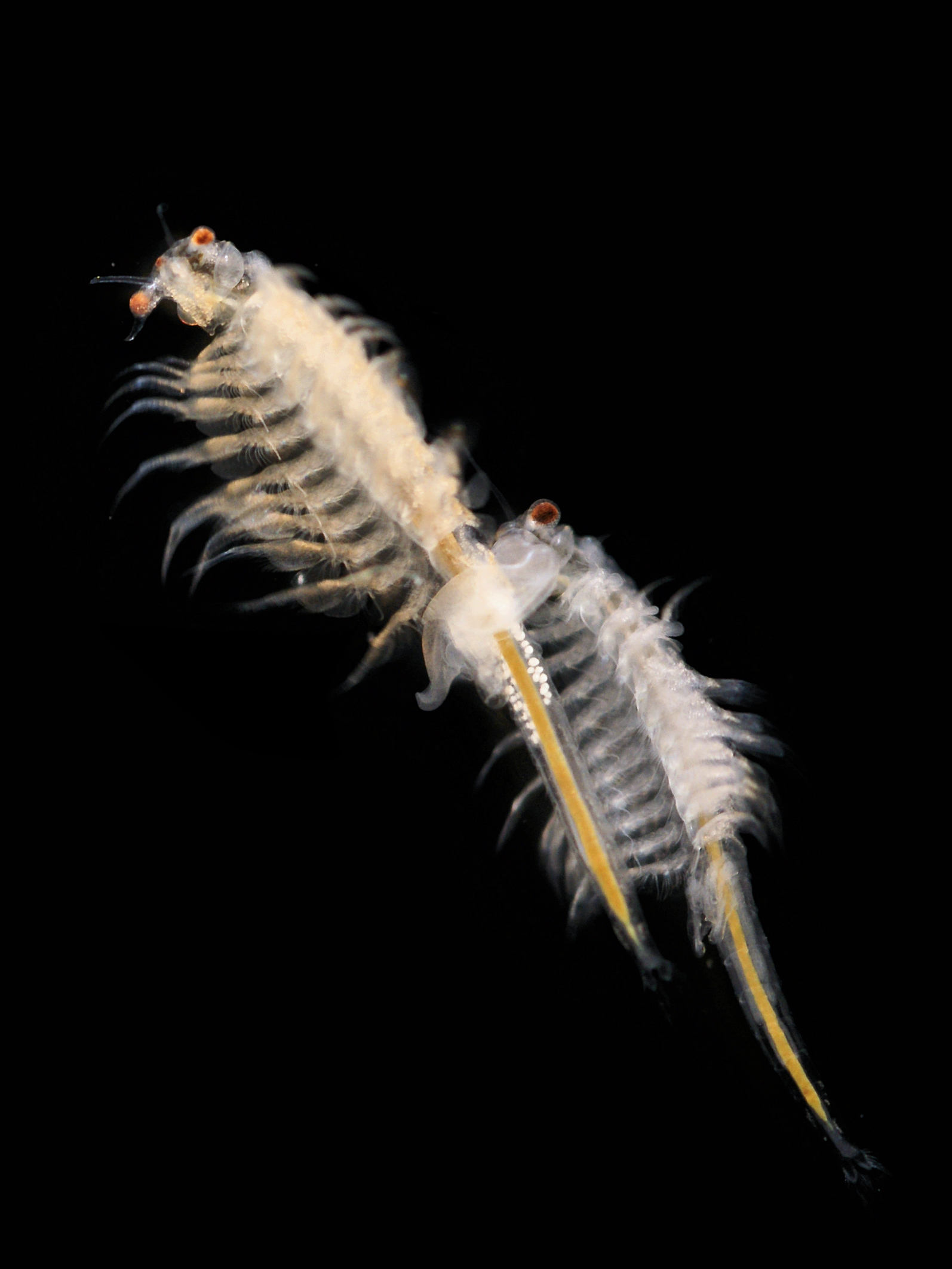 Brine shrimp. Laboratory picture